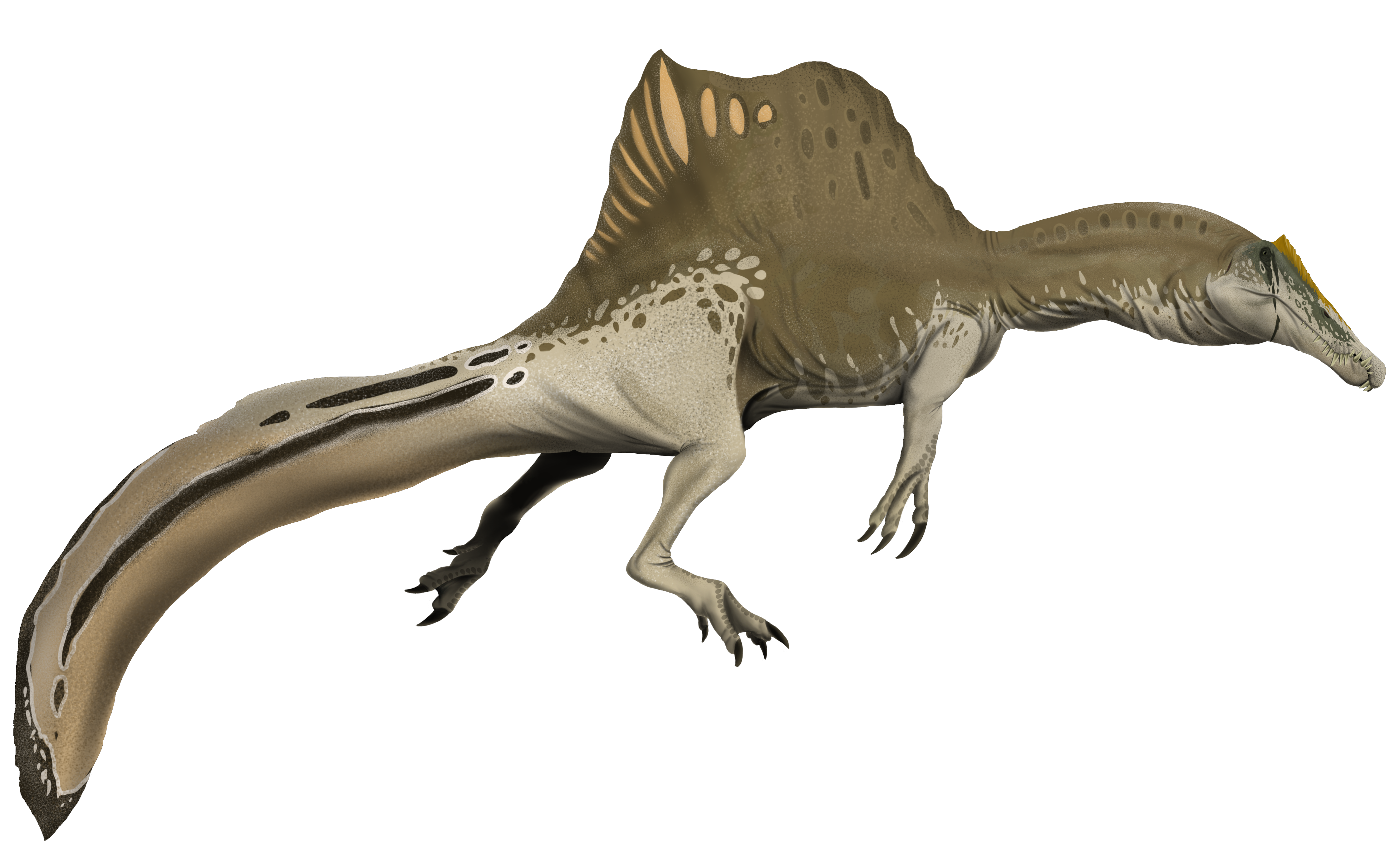 A reconstruction based on the new description of S. aegyptiacus.